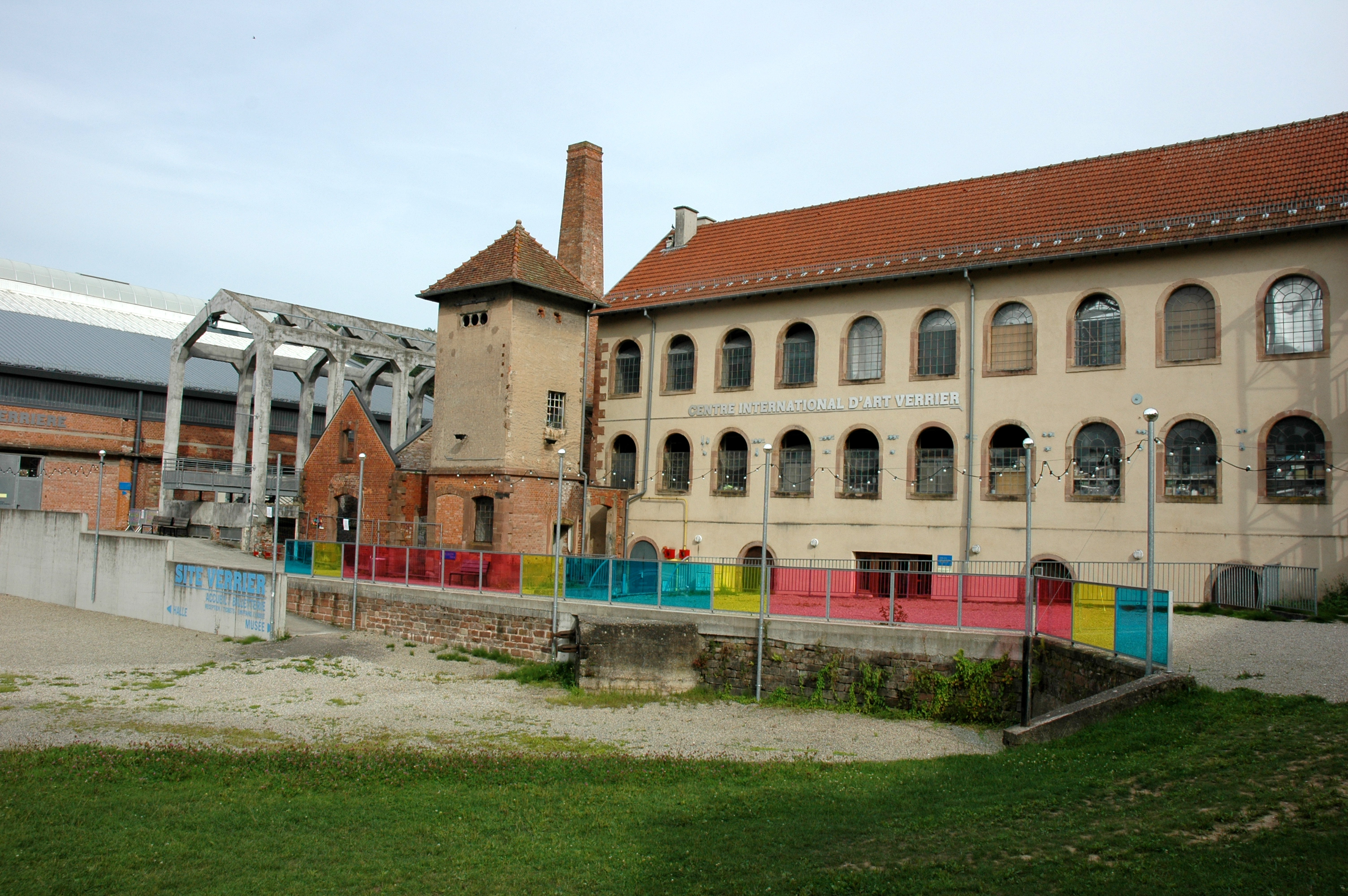 Meisenthal, international center for studio glass